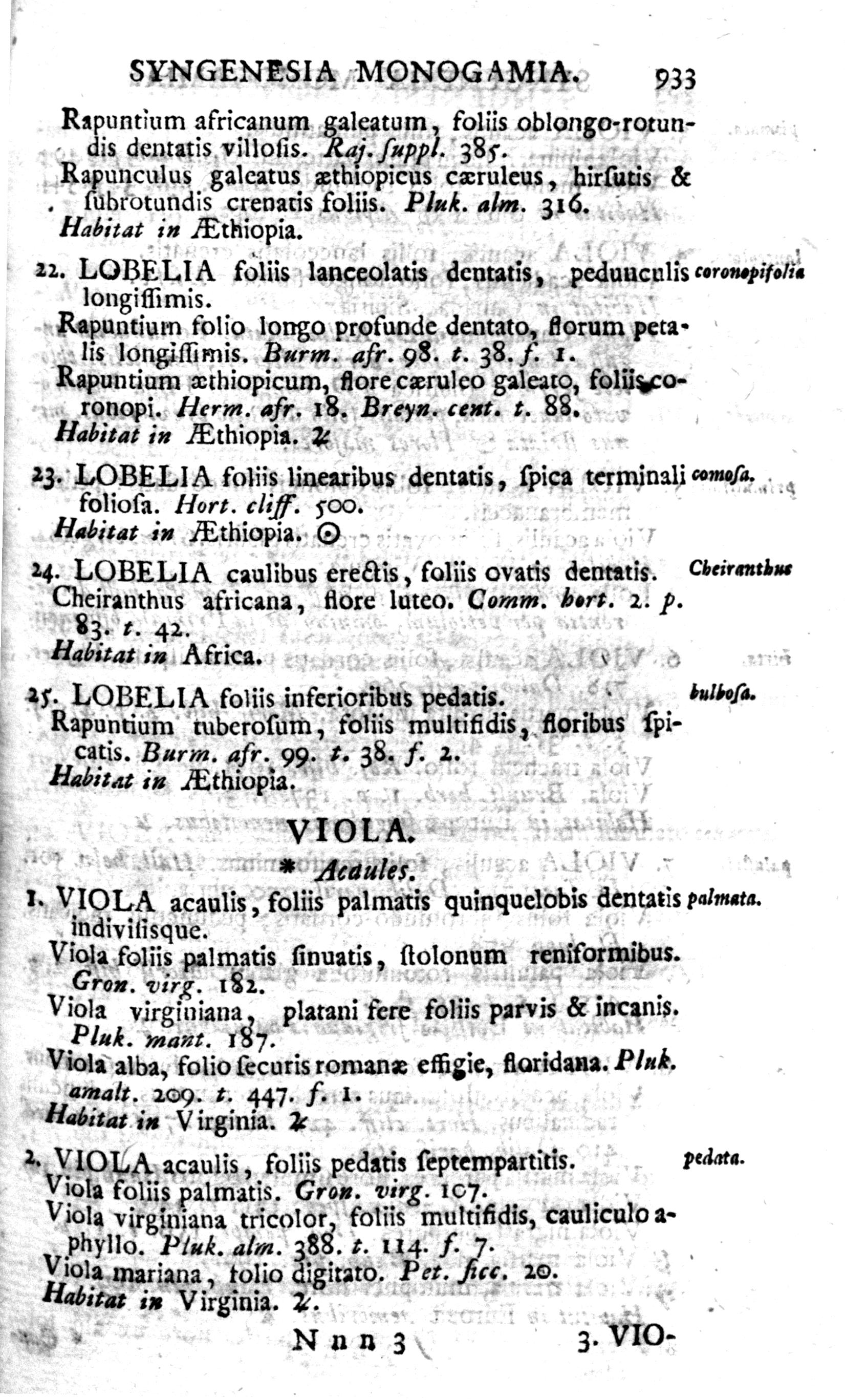 First formal description of Viola